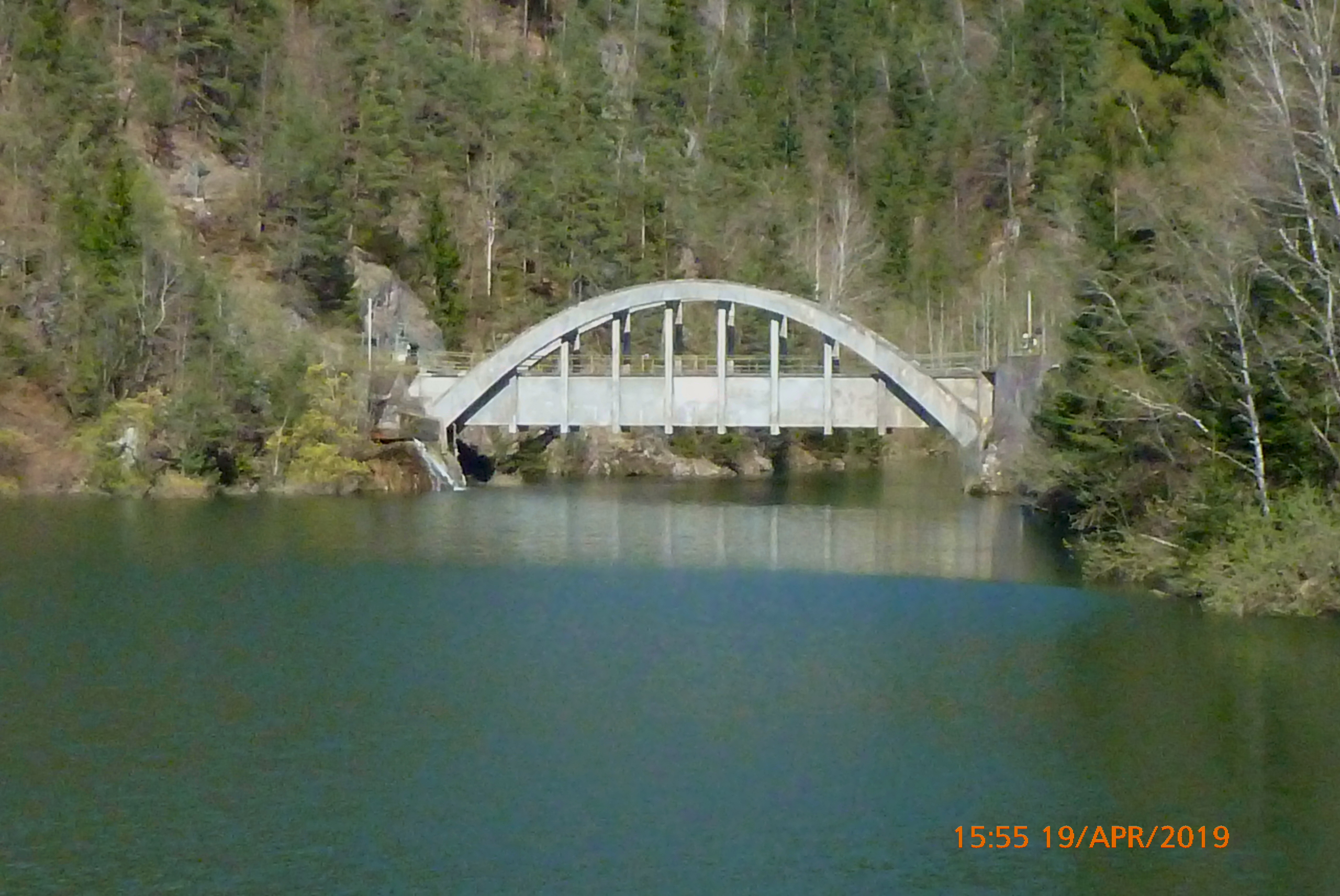 Hydroelectric power station St.Anton Bozen Reservoir Wangen (South Tyrol)